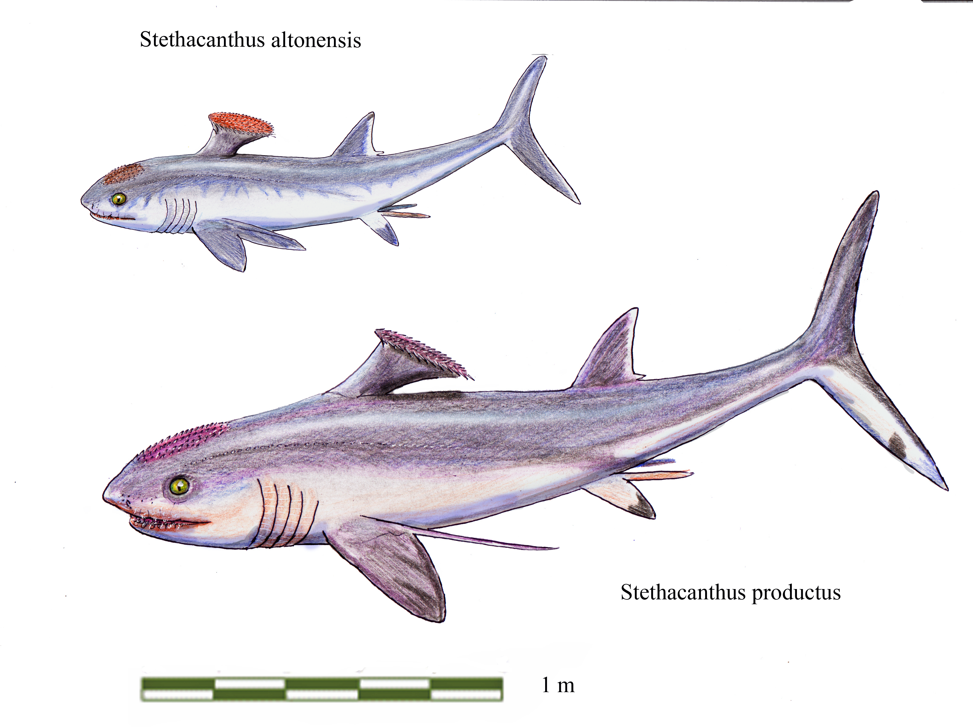 Reconstruction of two species of Stethacanthus, Carboniferous Symmoriid chondrychthyan